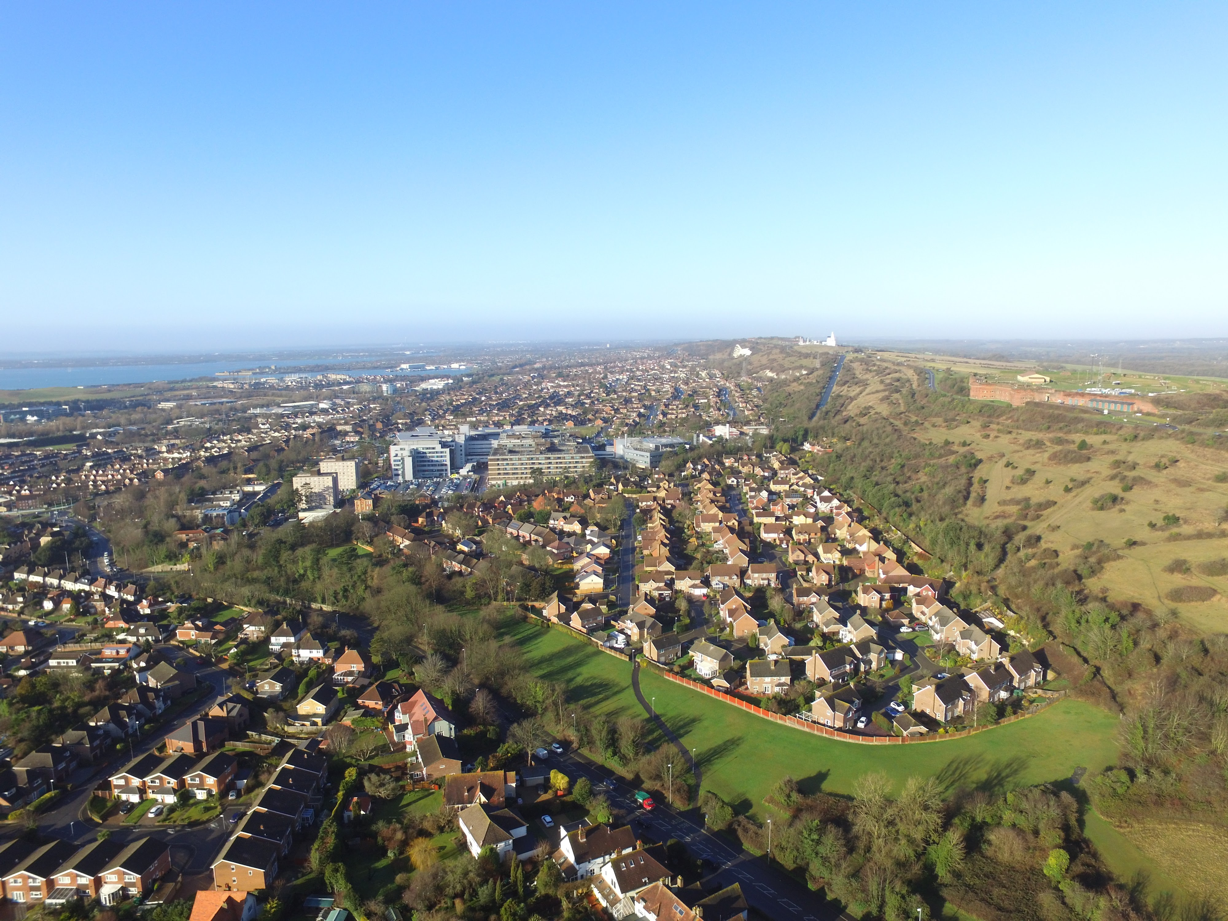 Portsdown Hill area, Look from east to west. Photo took in the north of Portsmouth. The Fort Widley and Queen Alexandra Hospital are in the Photo